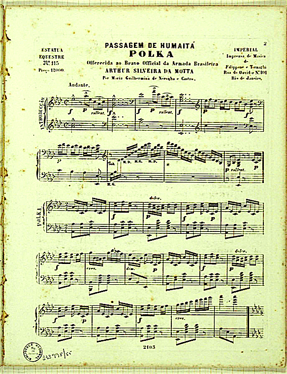 Polka celebrating the Passage of Humaitá, dedicated to "the brave Brazilian naval officer Arthur Silveira da Motta".